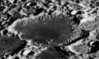 Oblique view of Chrétien crater, on the far side of the moon, facing roughly south.